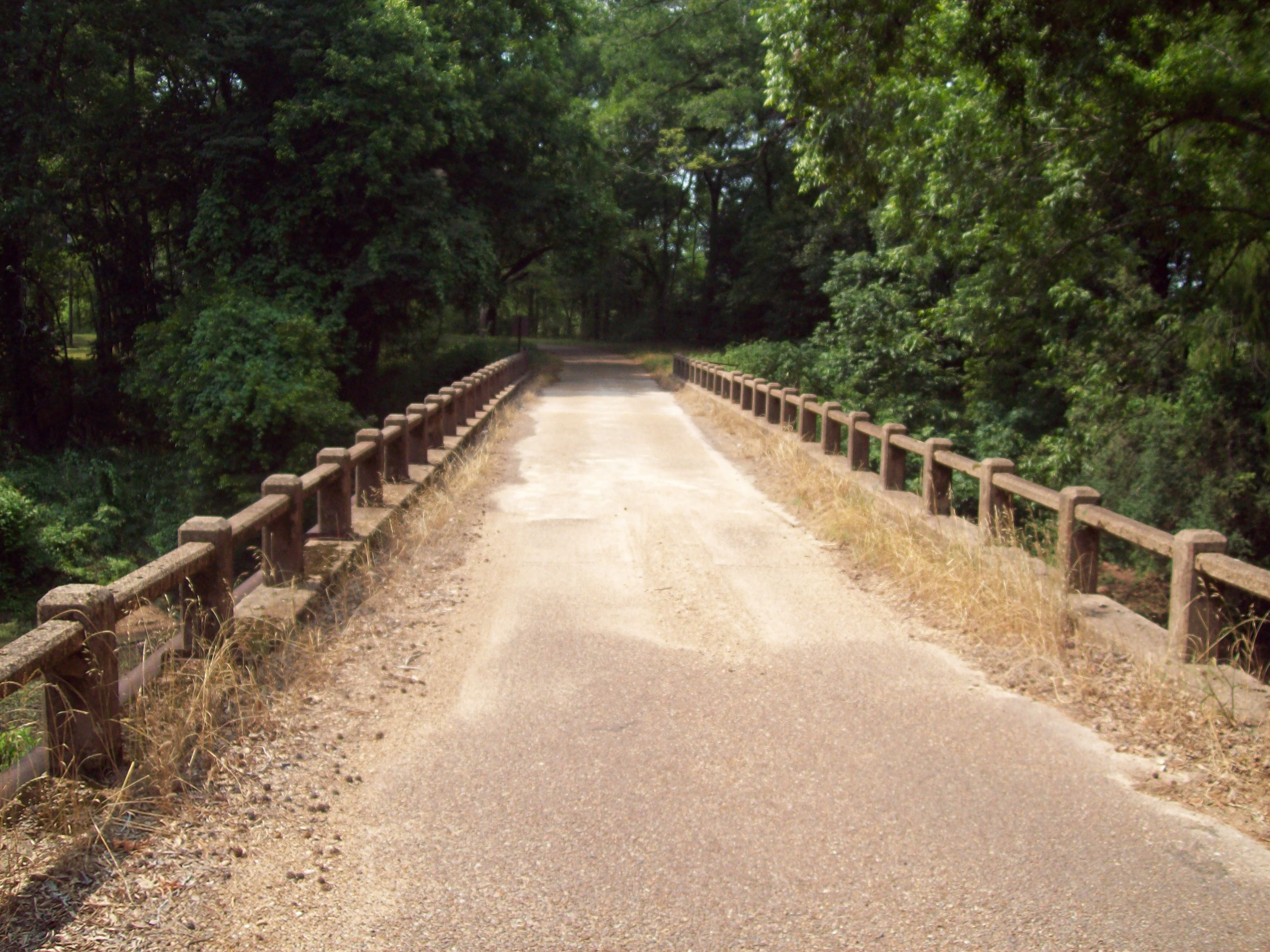 This is an old crossing of Bayou Marteau on an old stretch of Jefferson Highway. The one-lane crossing dates to 1919.